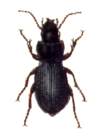 Molops piceus piceus, from Calwer's Käferbuch, Table 6, Picture 6. Taxonomy was updated to 2008, using mostly the sites Fauna Europaea and BioLib. Please contact Sarefo if the determination is wrong!